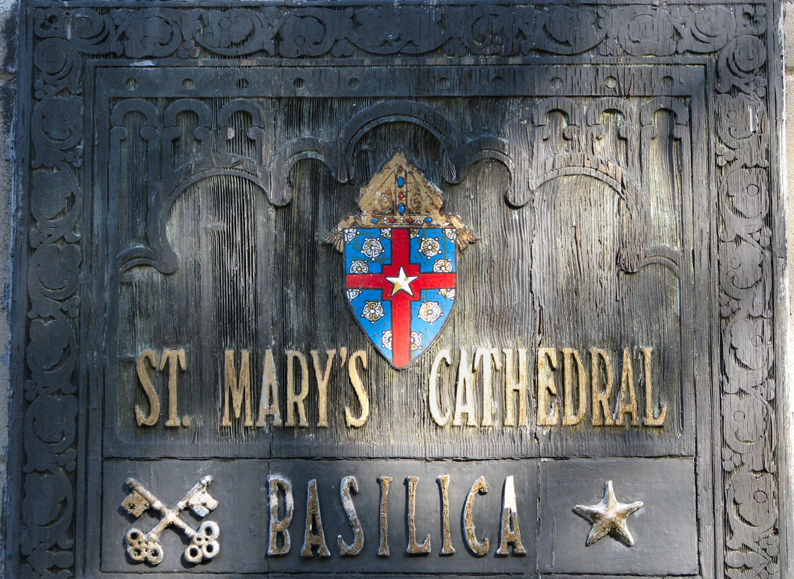 The shield of the Archdiocese of Galveston-Houston, as displayed at St. Mary's Cathedral Basilica. Photo taken by myself on 11/26/2007